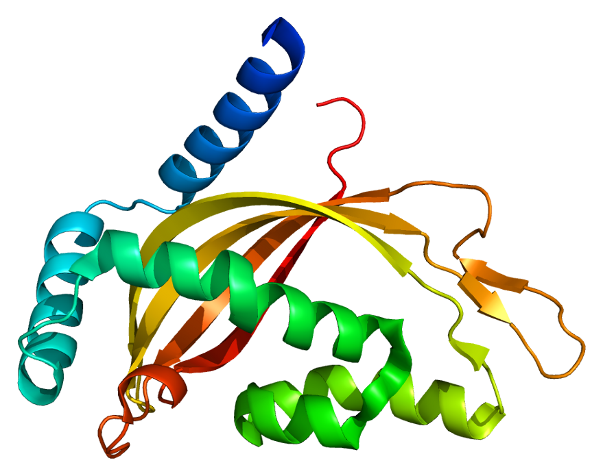 Structure of the TIMM44 protein. Based on PyMOL rendering of PDB 2cw9.